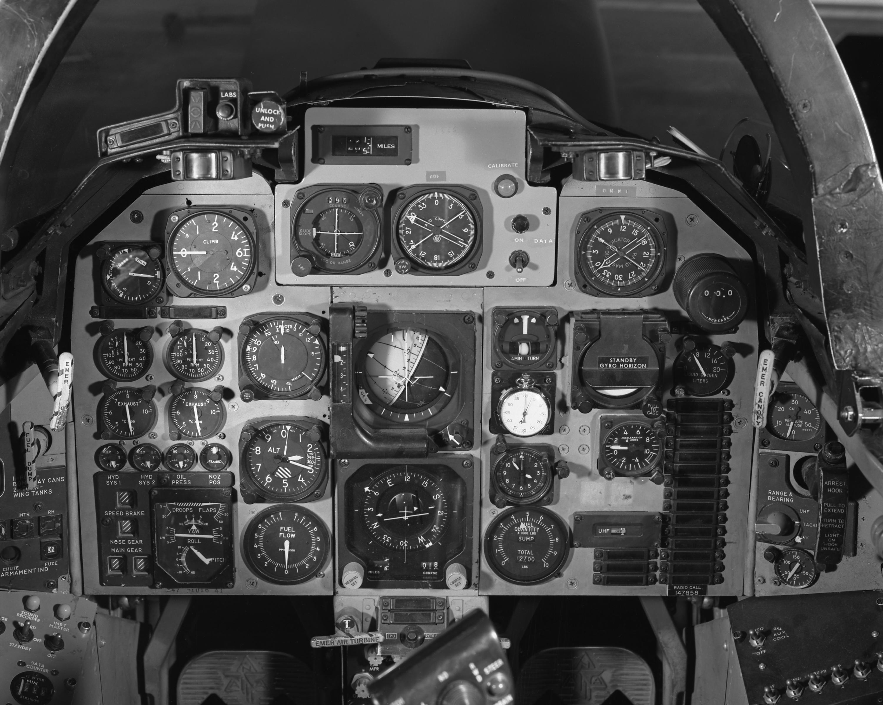 American A-5A Vigilante cockpit control panel (Navy serial number 147858/NASA tail number 858).